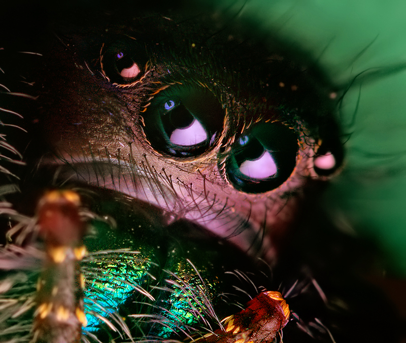 From Flickr: "Photographed this little audax with the 28mm reversed on the macro bellows. She backed up into a fold of the t-shirt I was photographing her on., and with no where to go, she settled down in the shadows created by the fold. This allowed me to photograph her at such a high magnification."